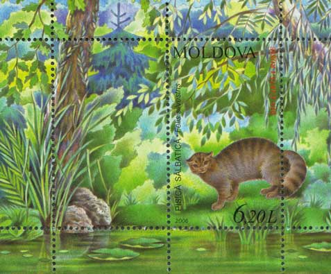 Stamp of Moldova